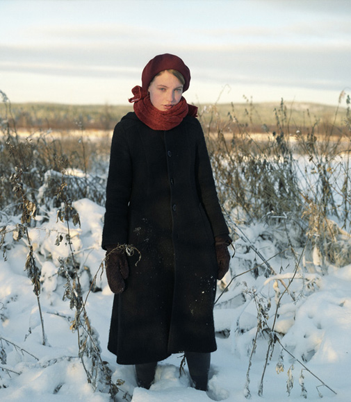 Laura Naukkarinen a.k.a. Lau Nau, a Finnish vocalist and songwriter